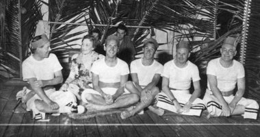 This photo was taken on the 1940 South Seas cruise that Winsor French took with Cole and Linda Porter and other friends; from left, in the front: Cole Porter, Linda Porter, Roger Stearns and French. At far right is Leonard Hanna, Kent State University Press